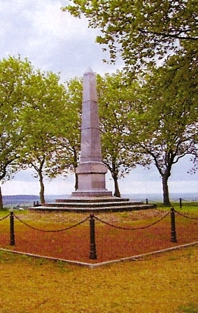 War Memorial at Morhange in Lorraine